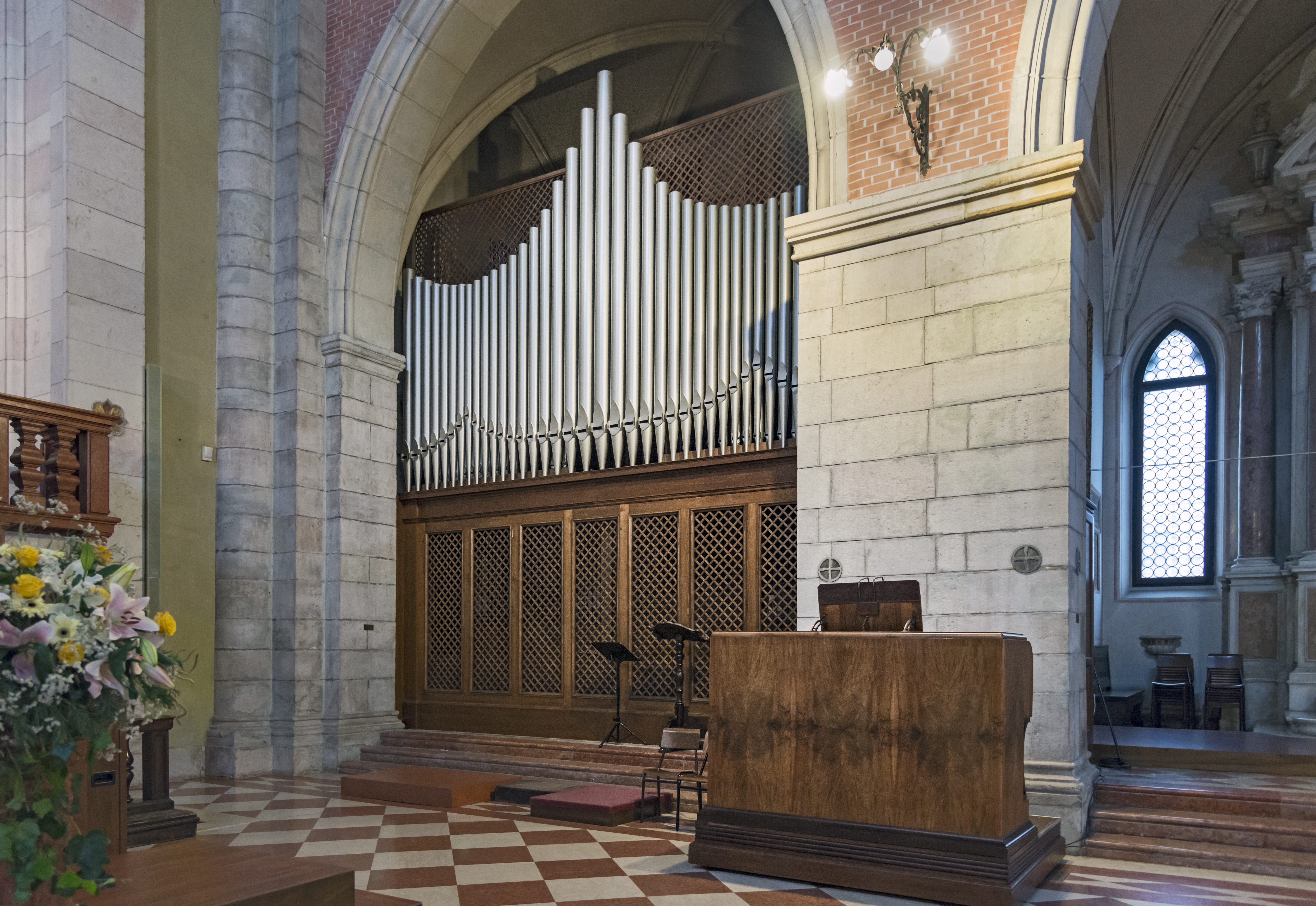 Church San Lorenzo in Vicenza - In the last chapel on the right, there is the orgon Mascioni opus 721, built in 1955 and subsequently expanded. The instrument is electrically powered and its console, independent mobile, has three keyboards of 61 notes each and a concave-radial pedal of 32 notes.